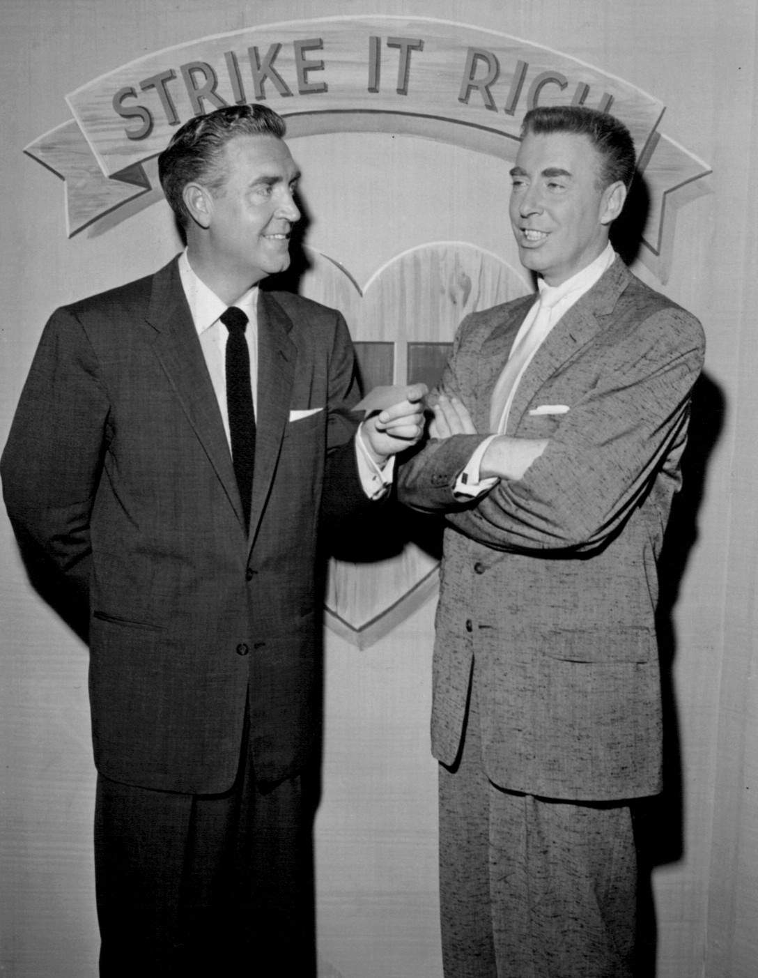 Photo of Robert Paige {left} asking bandleader Art Mooney a question on behalf of a television viewer on the quiz show Strike It Rich.